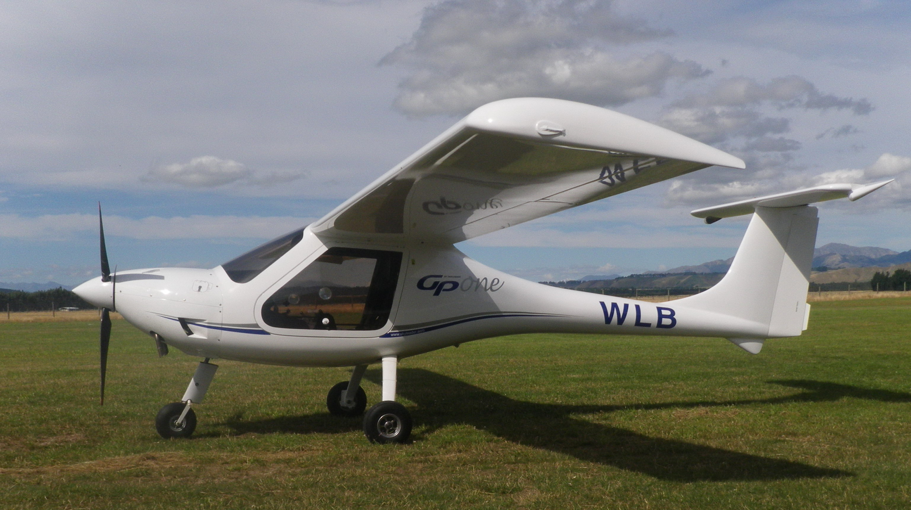 The first production GP One shown at Manapouri Airport in New Zealand